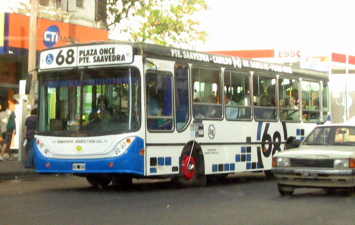 Ugarte Mini Europeo bus with Mercedes-Benz OH 1315 L chassis in Buenos Aires, Argentina. Colectivo, line 68, Transportes Sesenta y Ocho S.R.L. operator.